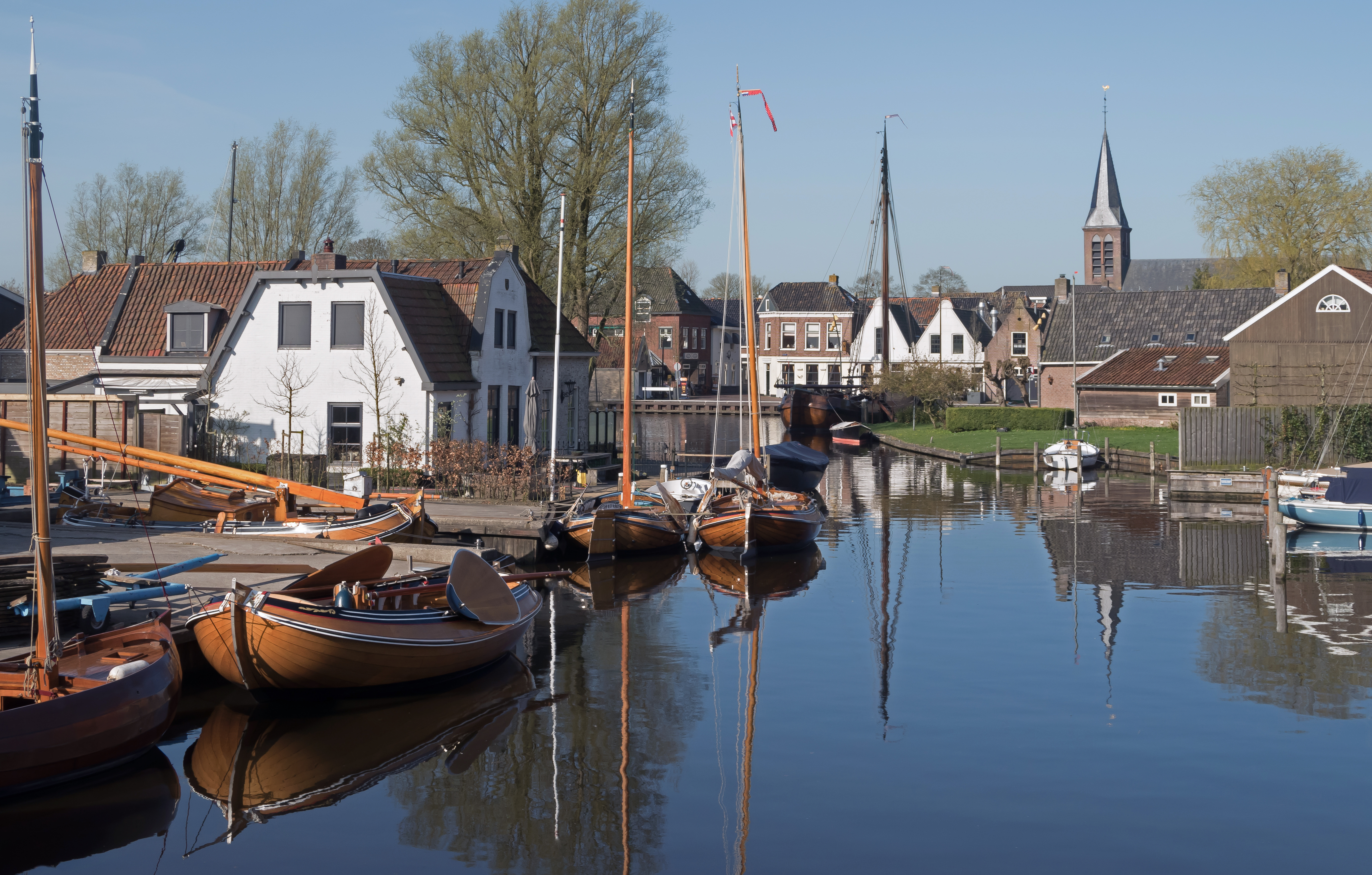 Heeg, view to the village from It Eilan